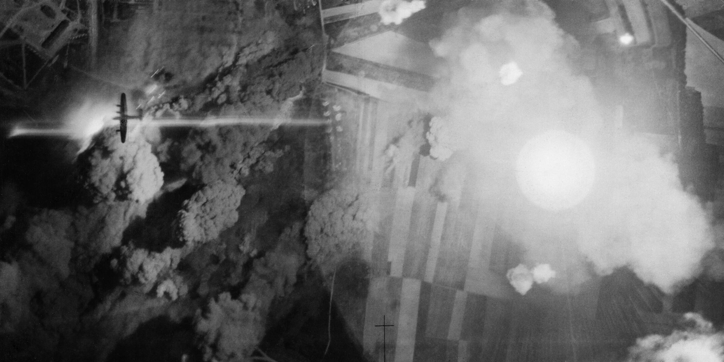 Royal Air Force Bomber Command, 1942-1945. Vertical photograph taken during the night attack on the German tank and lorry depot near Mailly-le-Camp, France, by 346 Avro Lancasters of Nos. 1 and 5 Groups. A Lancaster, silhouetted by the large explosion, clears the target area during the raid which, although successful in the destruction caused, was costly in terms of aircraft losses, 42 being shot down by Luftwaffe night fighters.